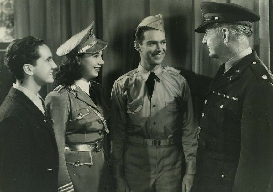 (L. to r.) Bobby Breen, Jane Withers, and Patrick Brook in "Johnny Doughboy" (1942 film)